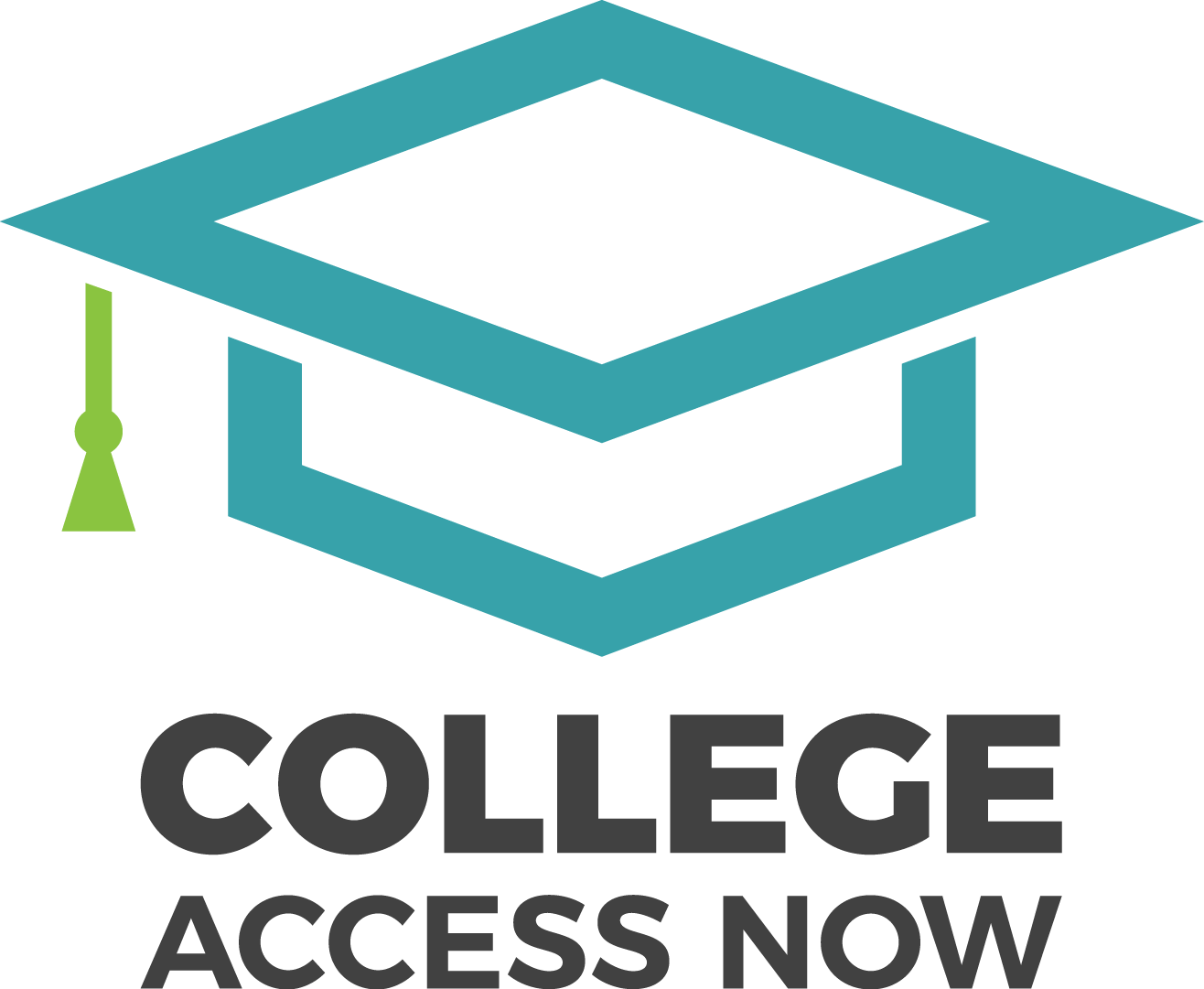 College Access Now Seattle Logo